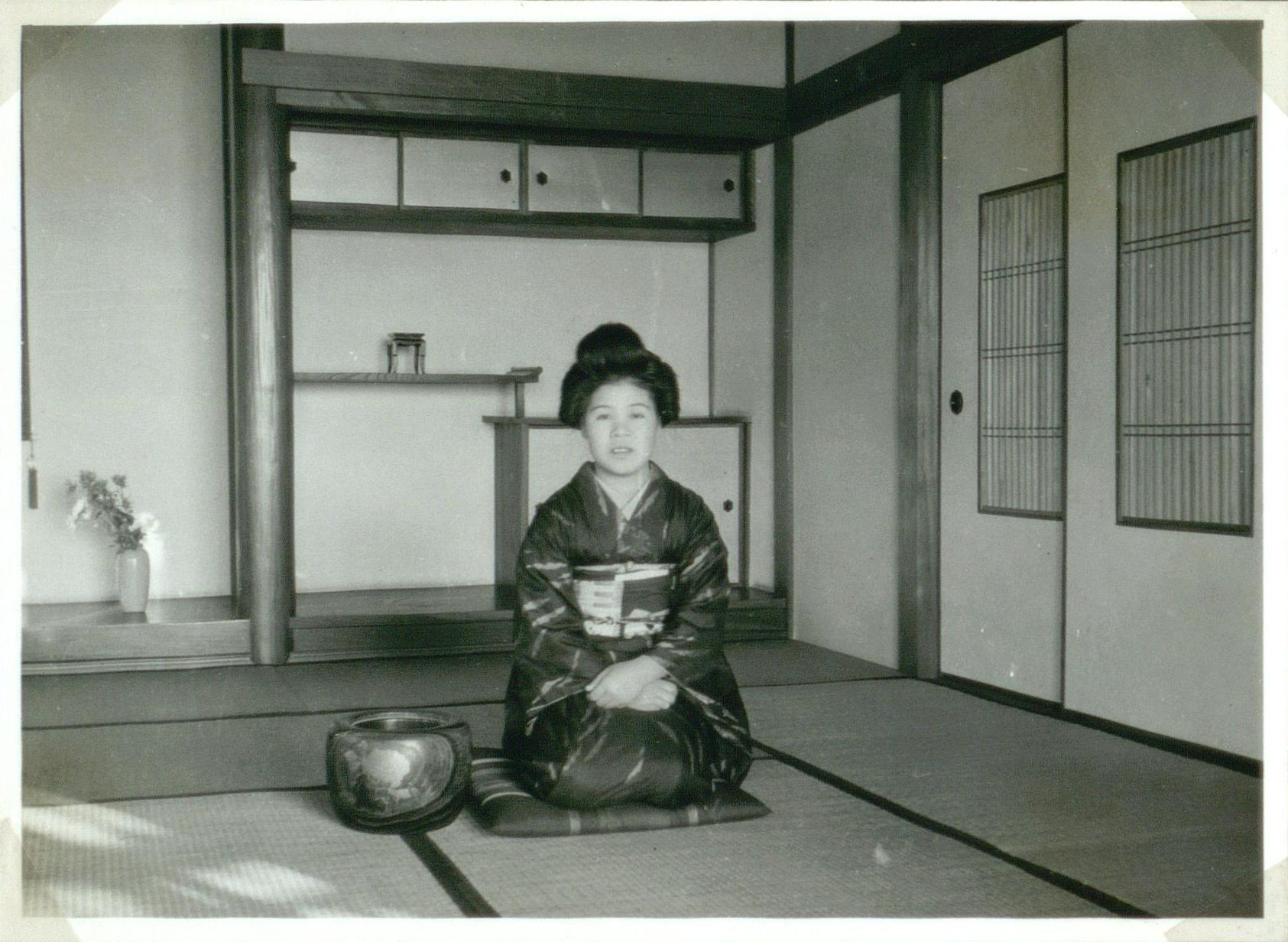 Photographer: Engineer J. A. L. Horn 1935. No. es_b_00541